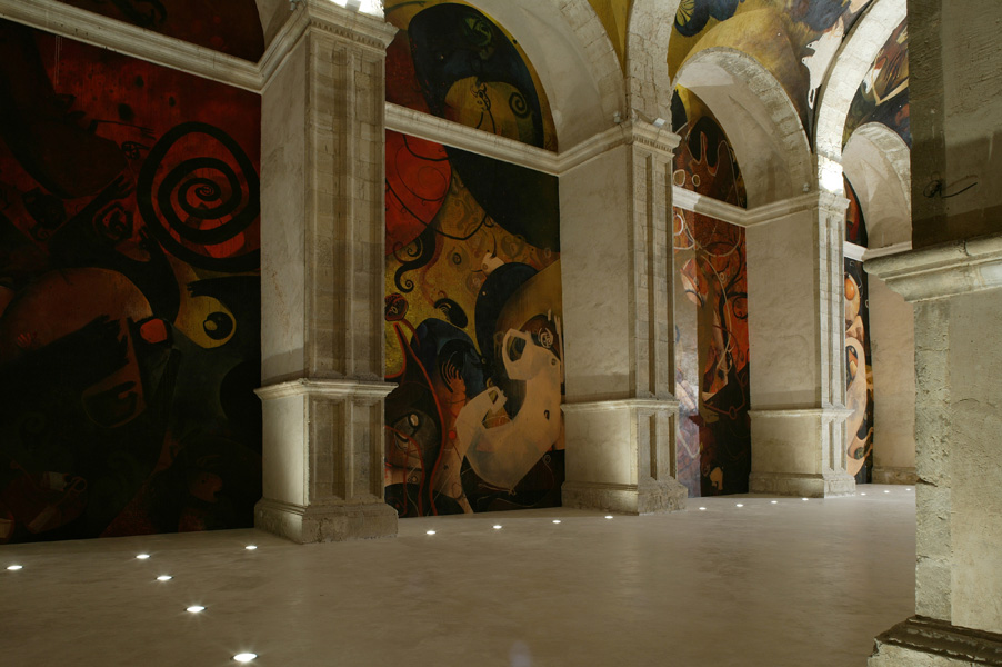 ART CENTER PAINTED MURALS OF ALARCÓN